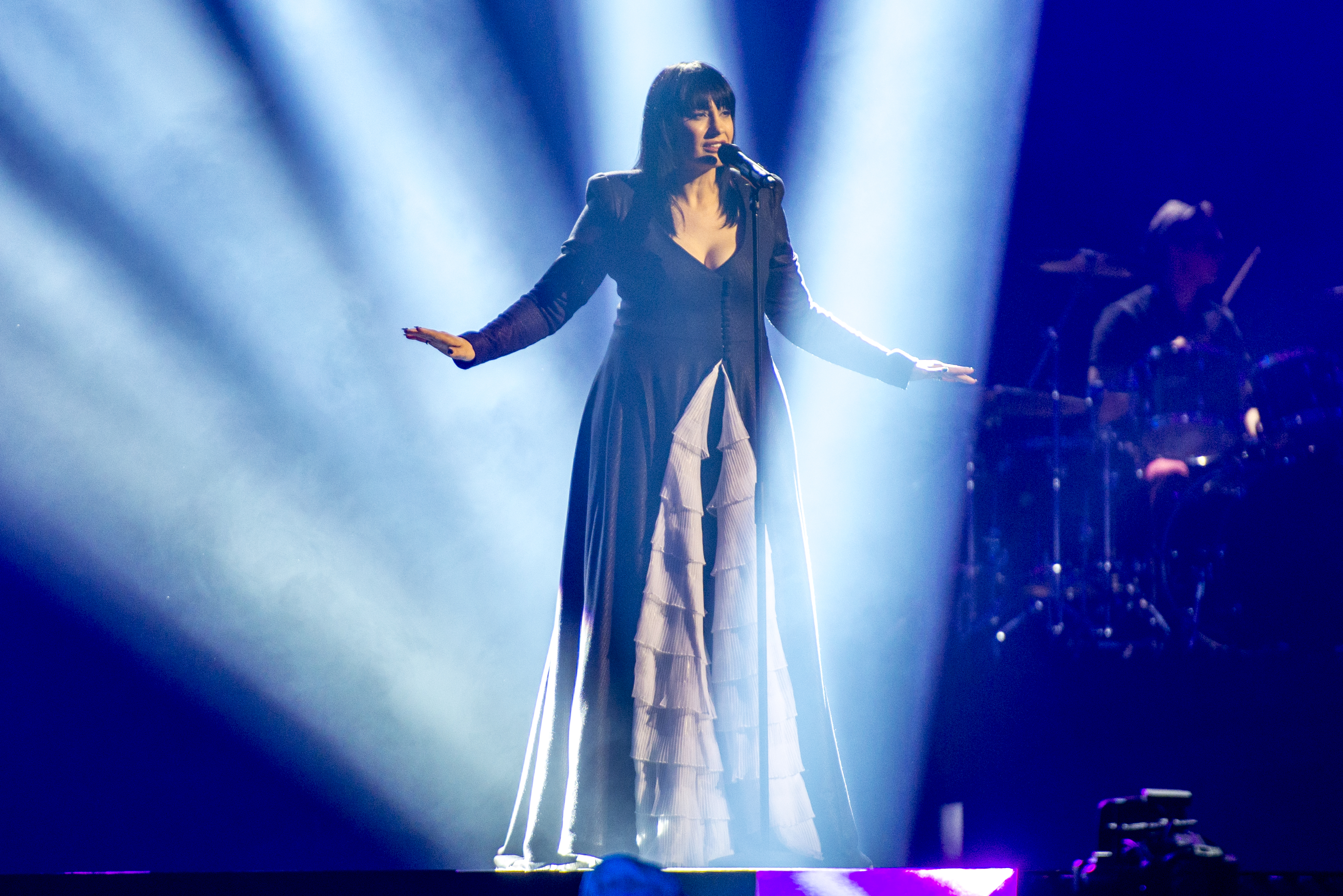 Kaliopi representing North Macedonia with the song "Dona" during a rehearsal before the second semi final of the Eurovision Song Contest 2016 in Stockholm. (Help translate this text)